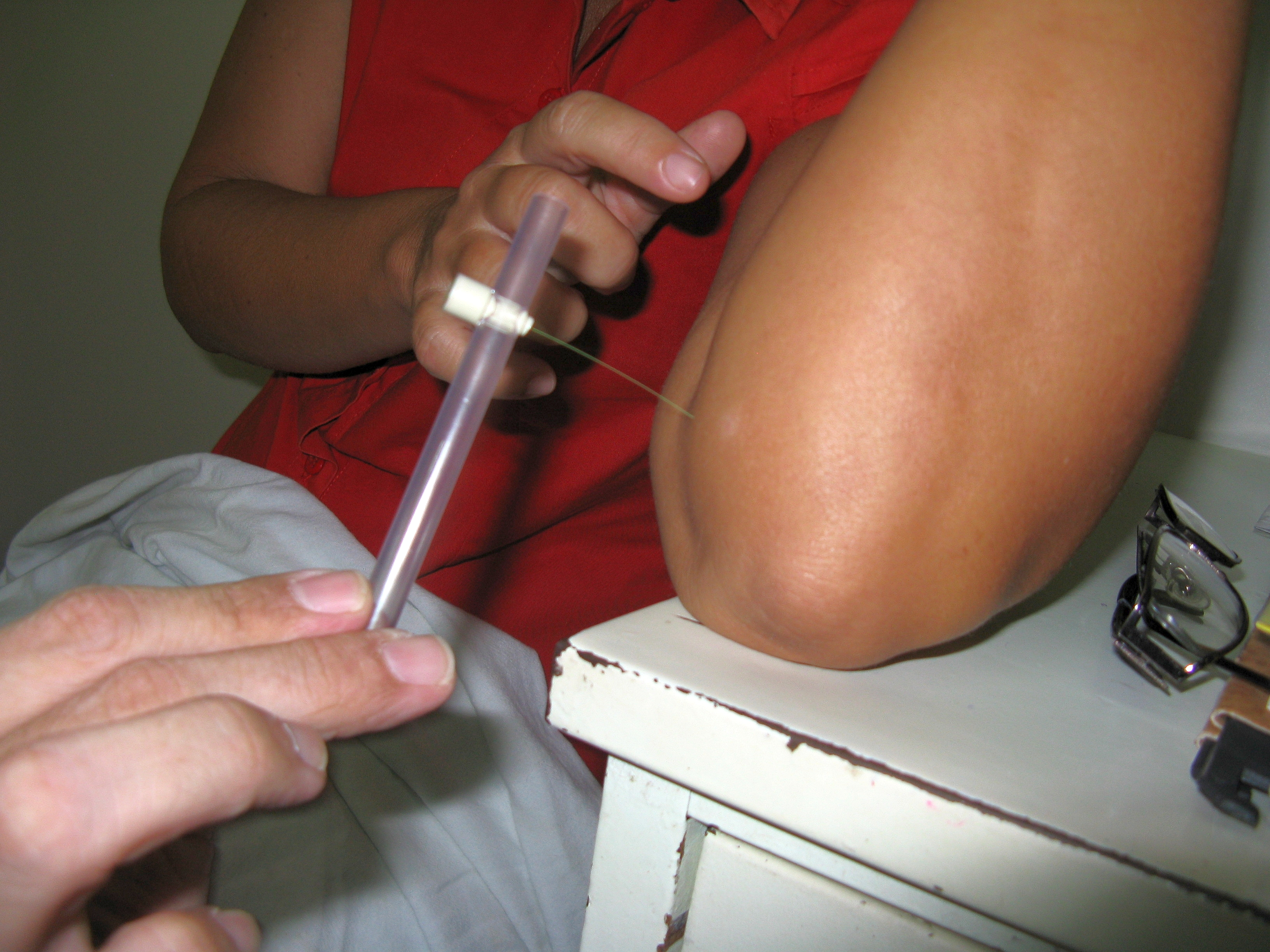 Testing for sensitivity with monofilament, in this case for leprosy diagosis